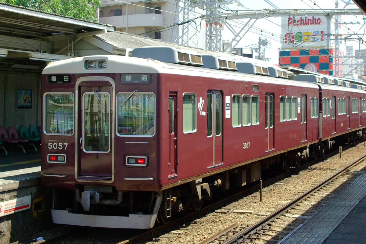 Hankyu 5000 Series 5050 Type